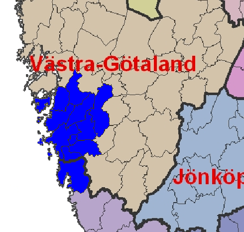 view of big-gothenburg